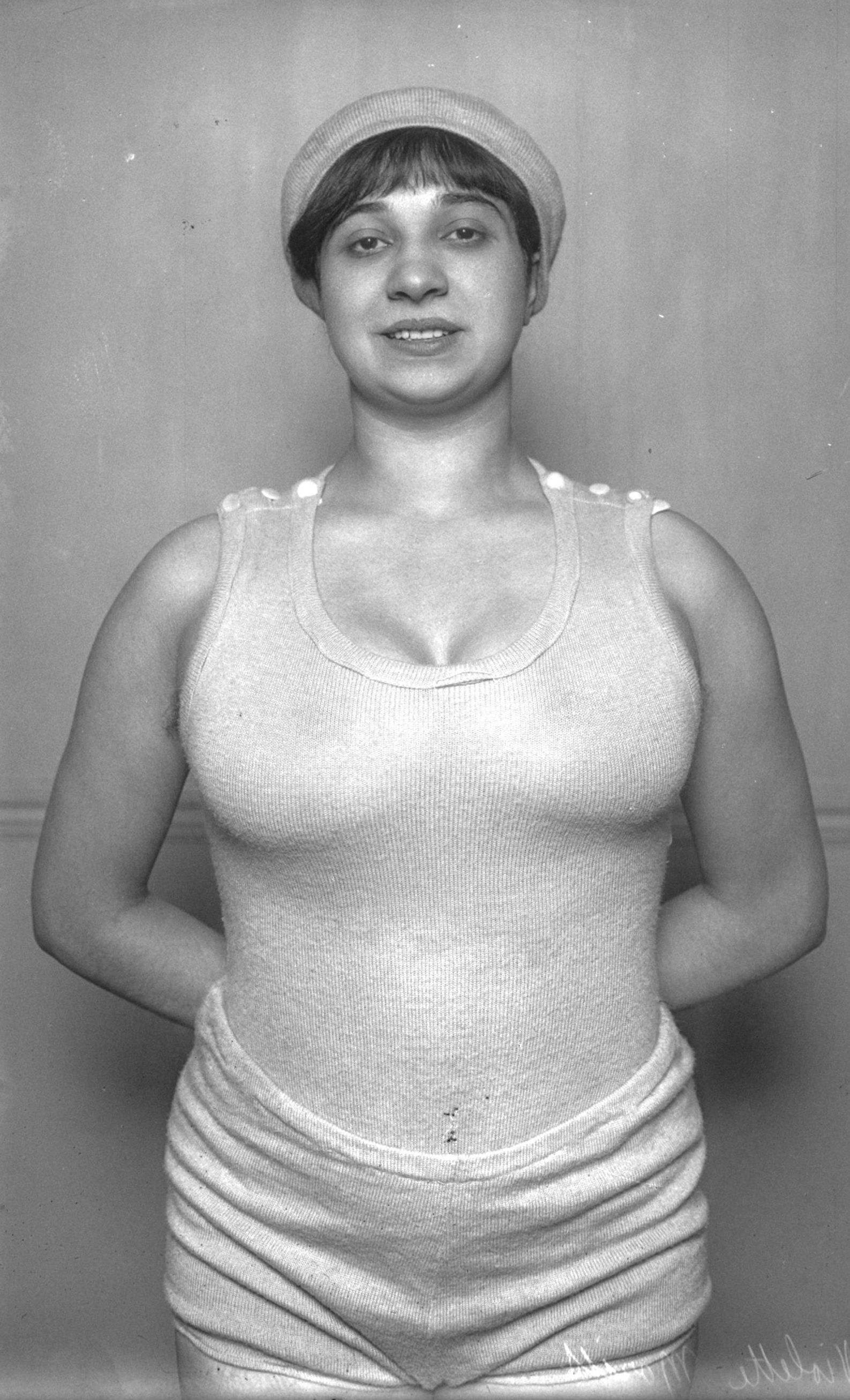 French athlete and spy Violette Morris (1893-1944) in minimal sports apparel